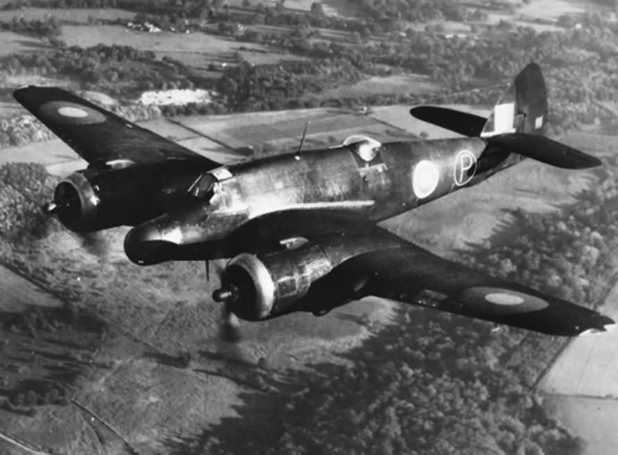 Beaufighter Mk. VIF X7579 was the testbed for fitting the new microwave air-to-air radar, AI Mk. VII.